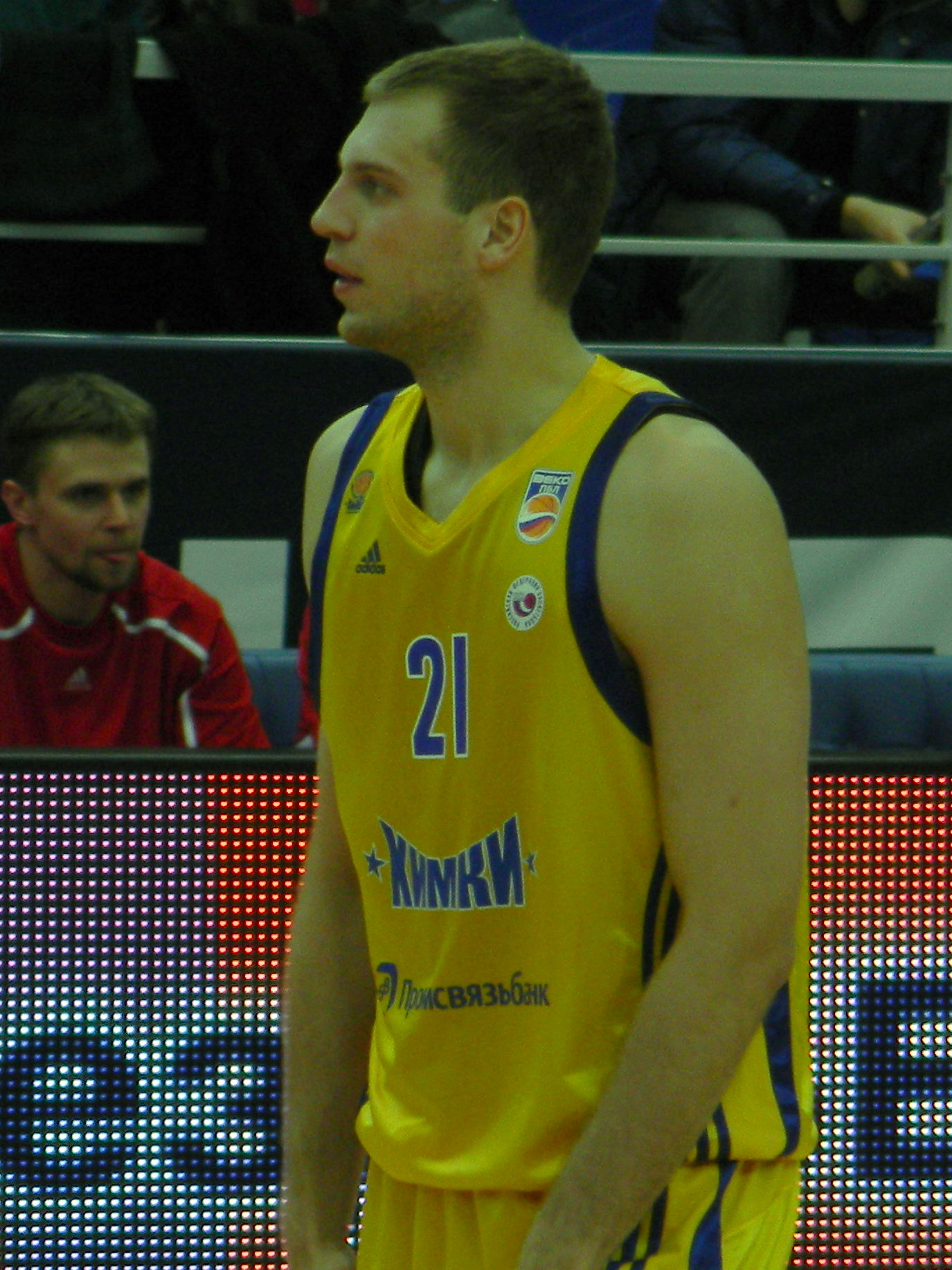 Sergei Monia, russian Basketball player, at all-star PBL game 2011